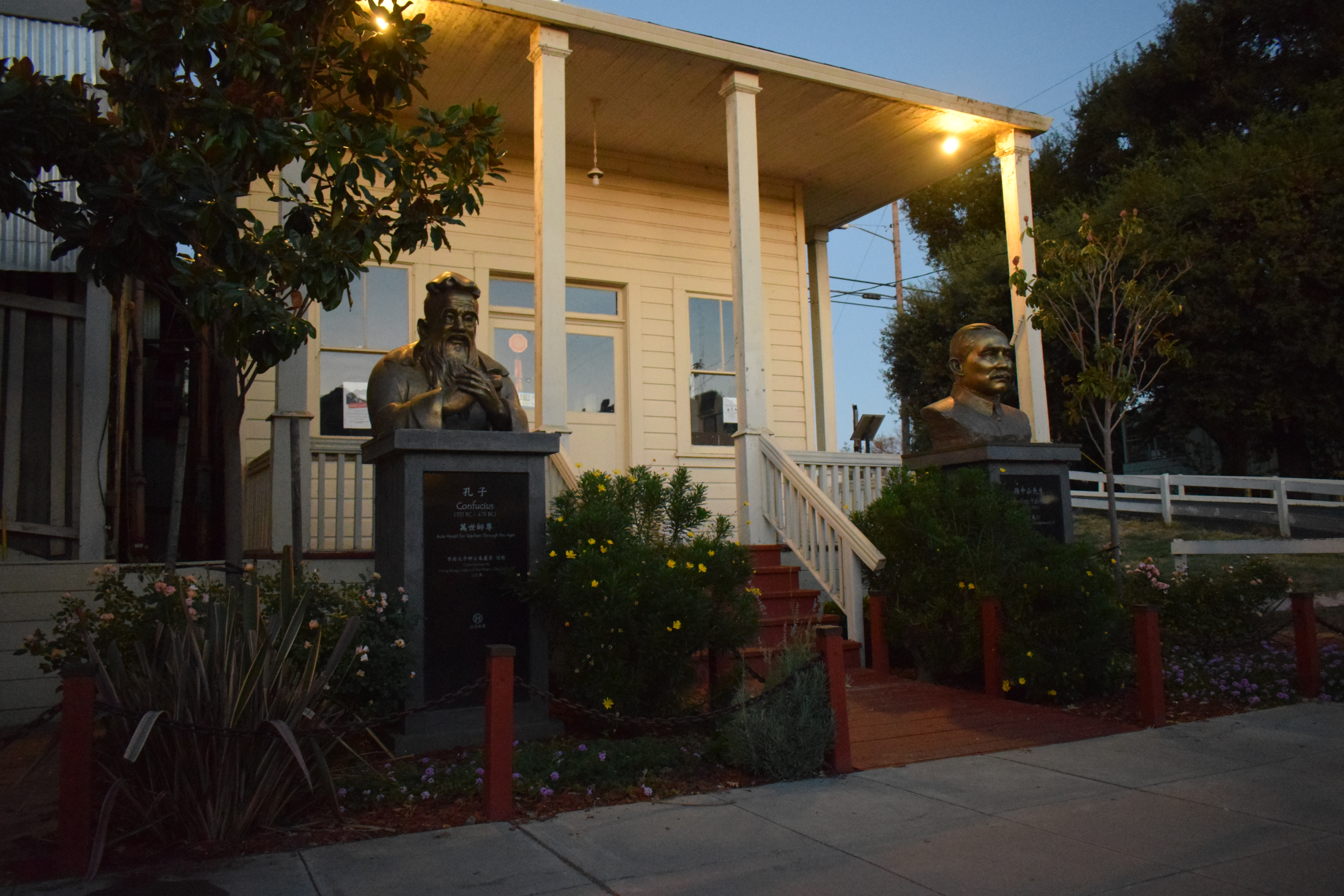 Joe Shoong Chinese School in Locke, CA., established in 1926. Locke is the last rural Chinatown in the United States. Locke's continued existence is currently threatened by development of the Sacramento Delta. Locke, established in 1915, is on the U.S. National Registry of Historic Places and is a U.S. National Historic Landmark District.